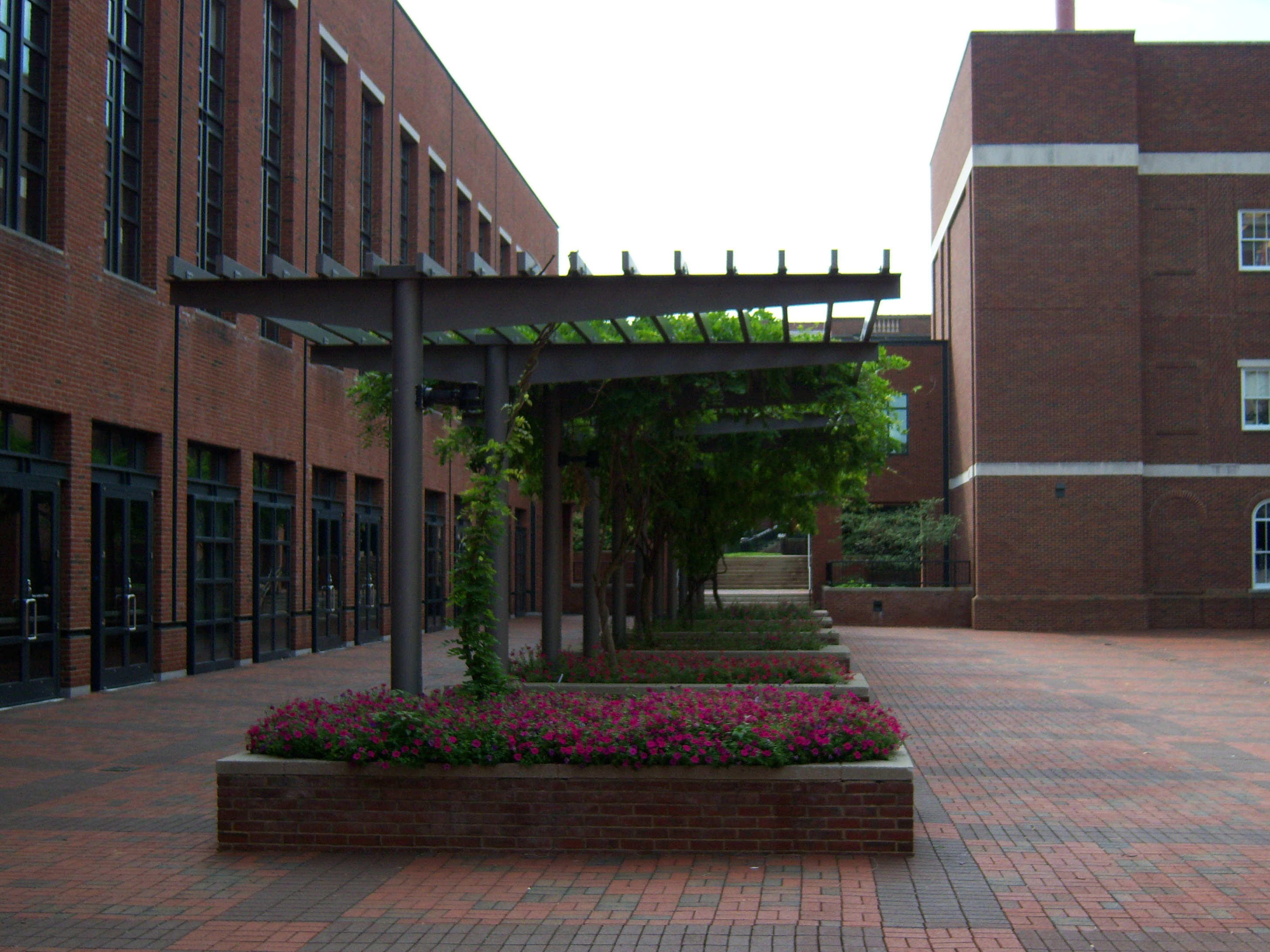 A section of the Engineering Quadrangle, located near the Anderson Tower at the University of Kentucky.